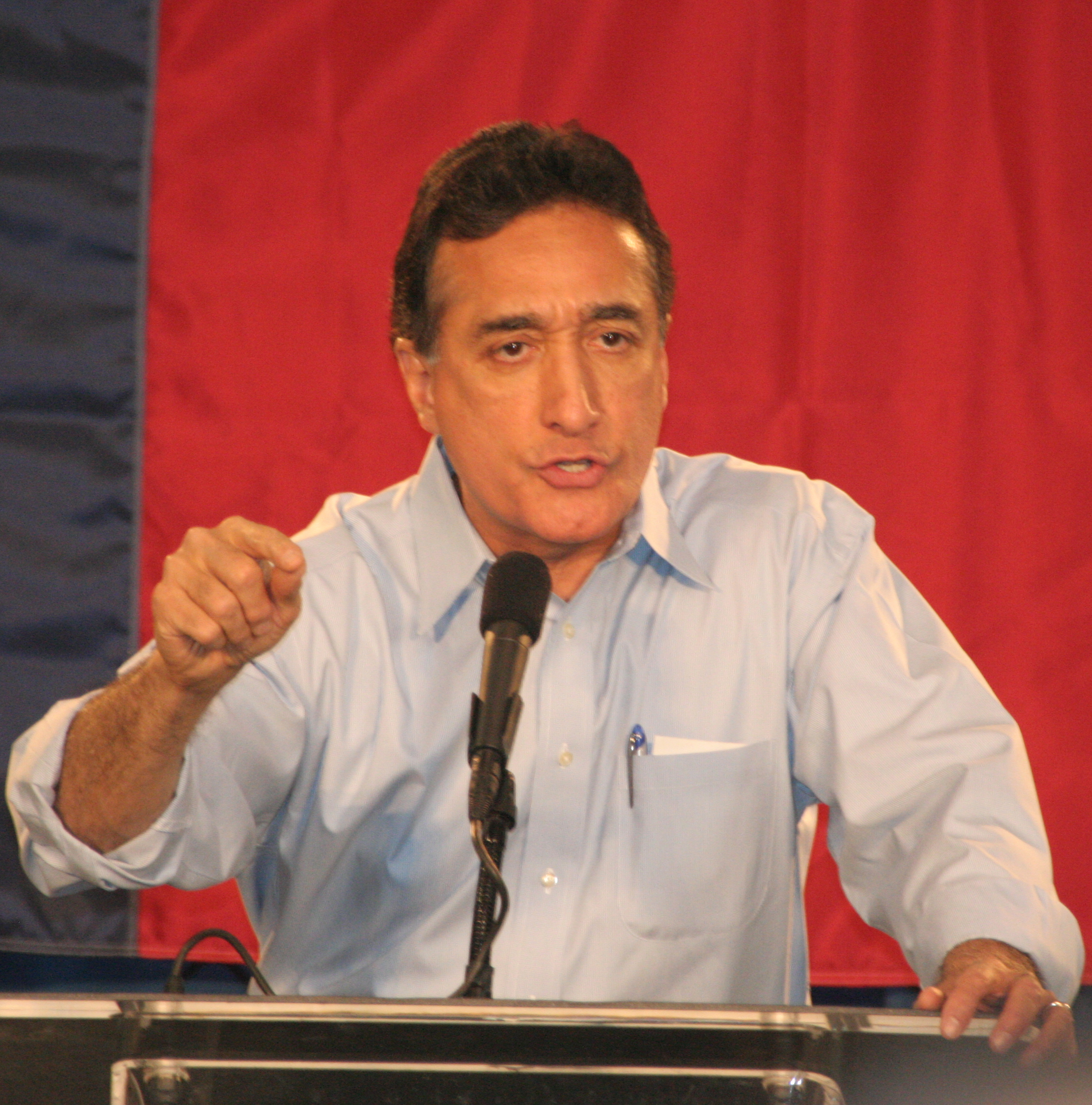 Henry Cisneros at campaign rally for Ciro Rodriguez